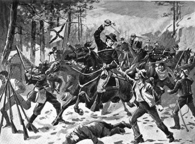 Drawing of the Sinking Creek cavalry raid that occurred in western Virginia on November 26, 1862. Major William Powell was later awarded the Medal of Honor for leading this daring raid.